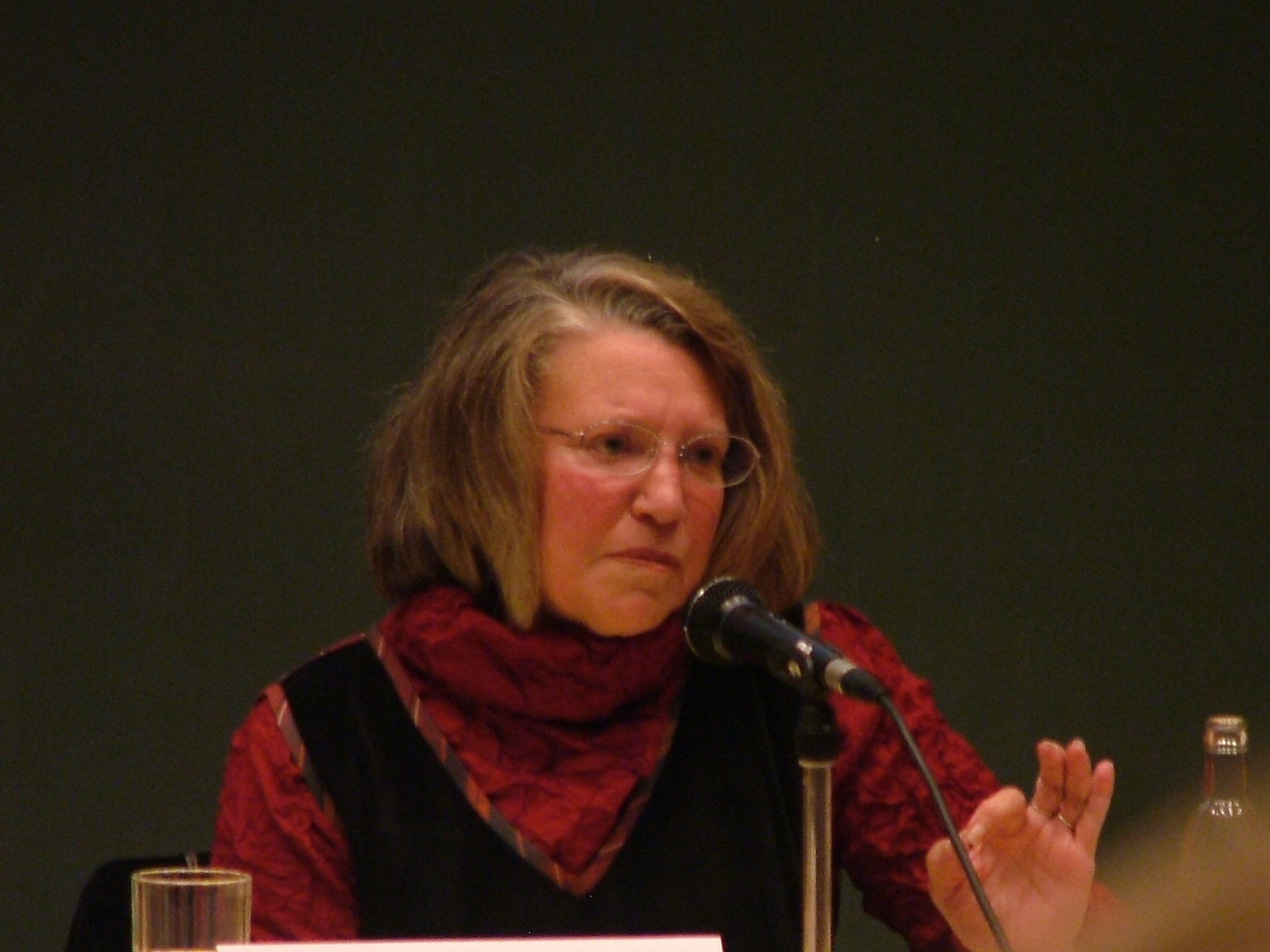 Nancy Fraser 2008 in Jena